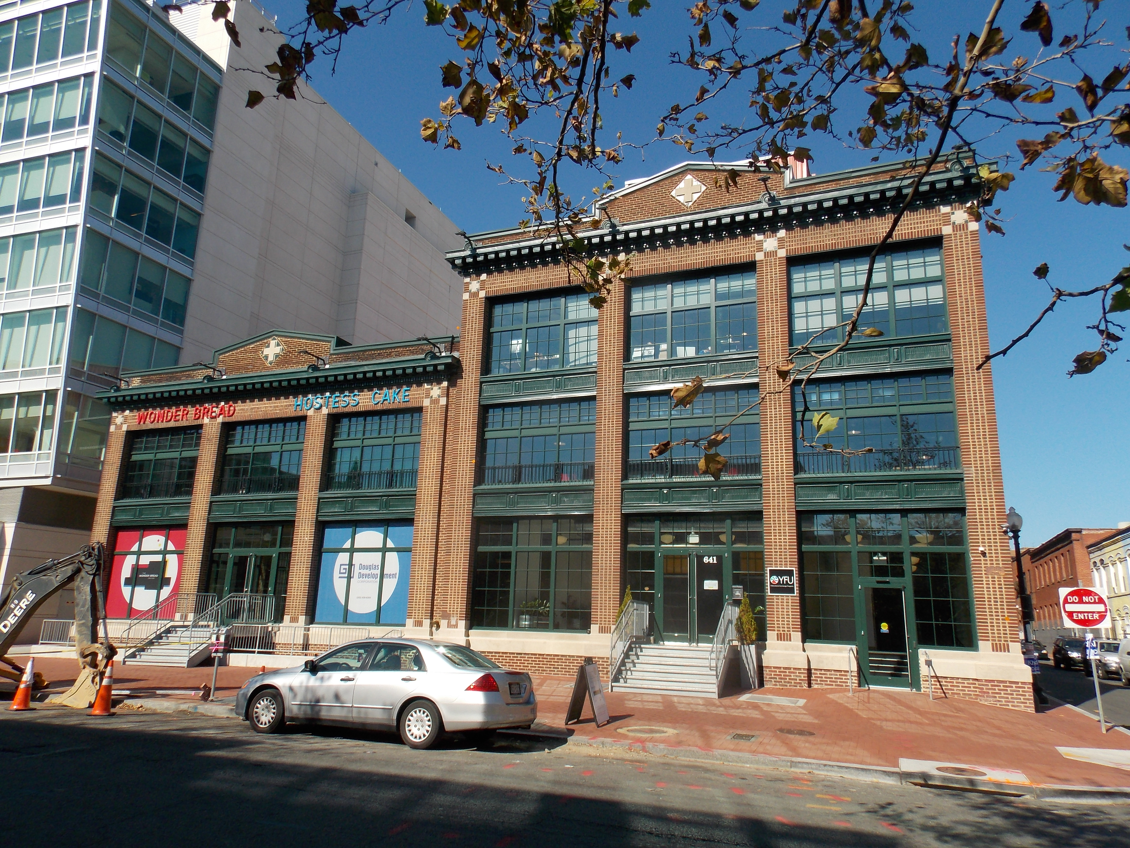 Dorsch's White Cross Bakery is now an retail/office building in the Shaw neighborhood of Washington, D.C. It is listed on the National Register of Historic Places.